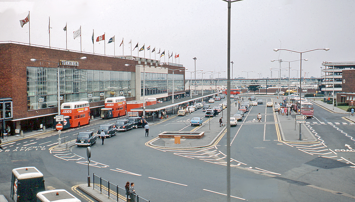 London Heathrow Airport, 1972. Elevated view southward, beside Terminal 2. The orange buses are two BEA Routemasters with their luggage trailers.